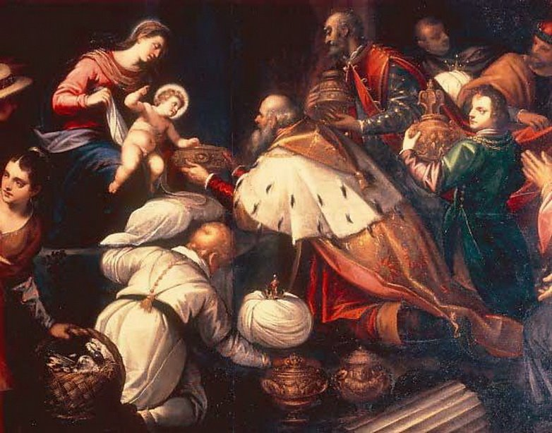 Adoration of the kingslabel QS:Lde,"Anbetung der Könige"label QS:Len,"Adoration of the kings"label QS:Lfr,"Adoration des Rois" (detail)